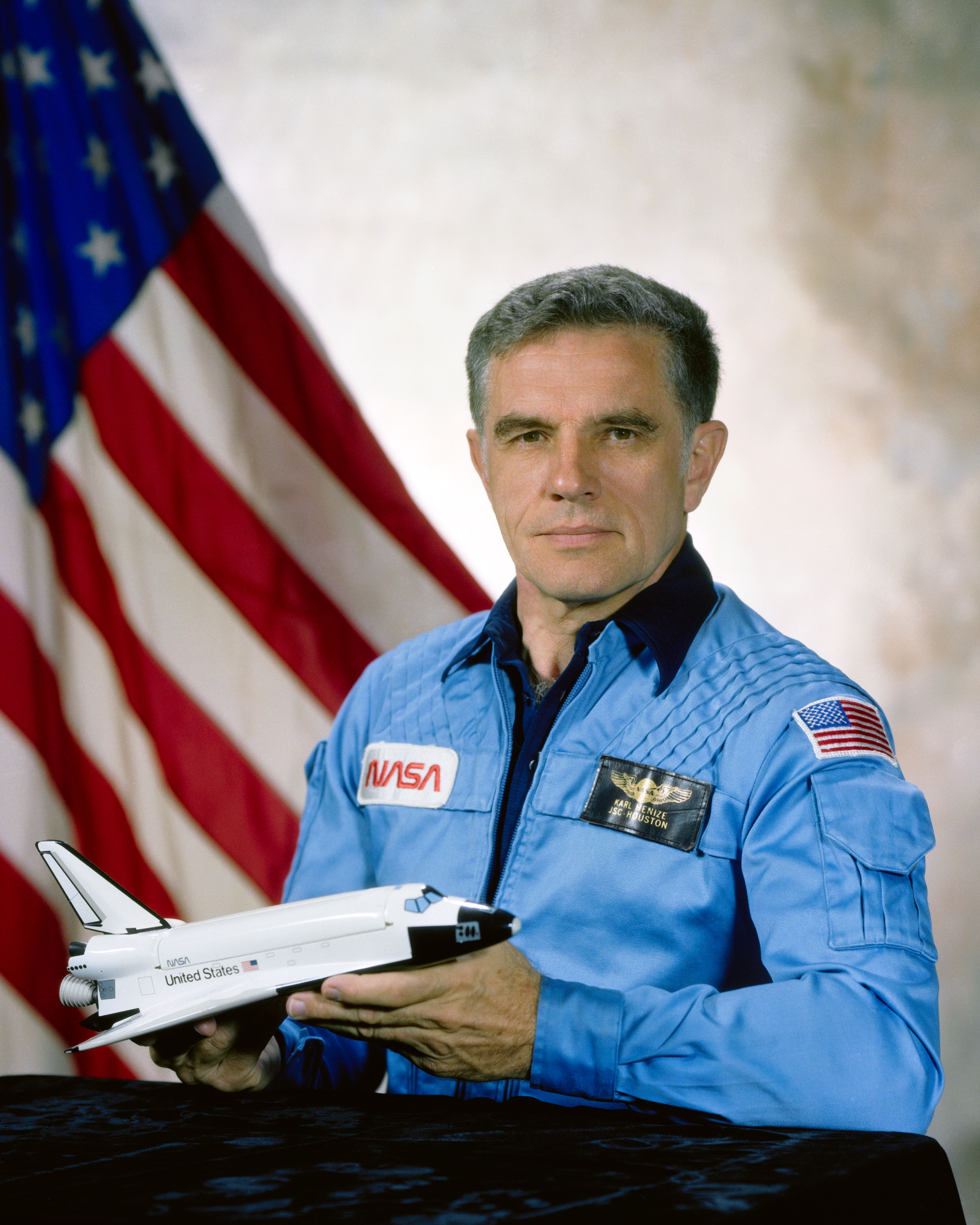 NASA portrait of Karl G. Henize